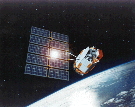 Lewis Spacecraft of the SSTI Project — by TRW Inc.